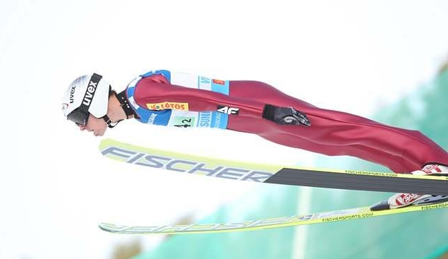 Piotr Żyła when making his new personal record during team competition of FIS Ski-Flying World Championships 2012.